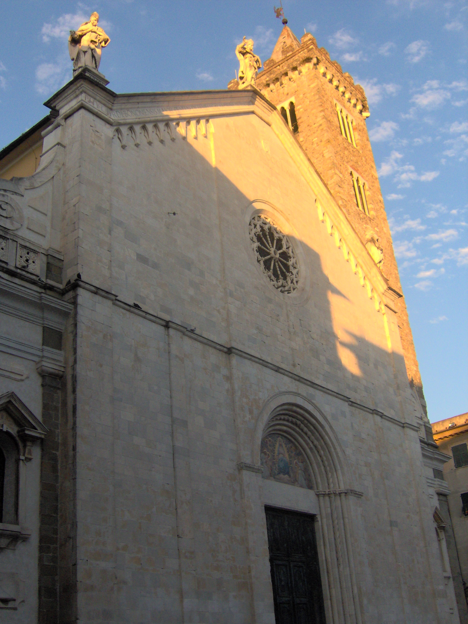 Saint Franciscus church in the historic part of the town of Sarzana, Liguria, Italy